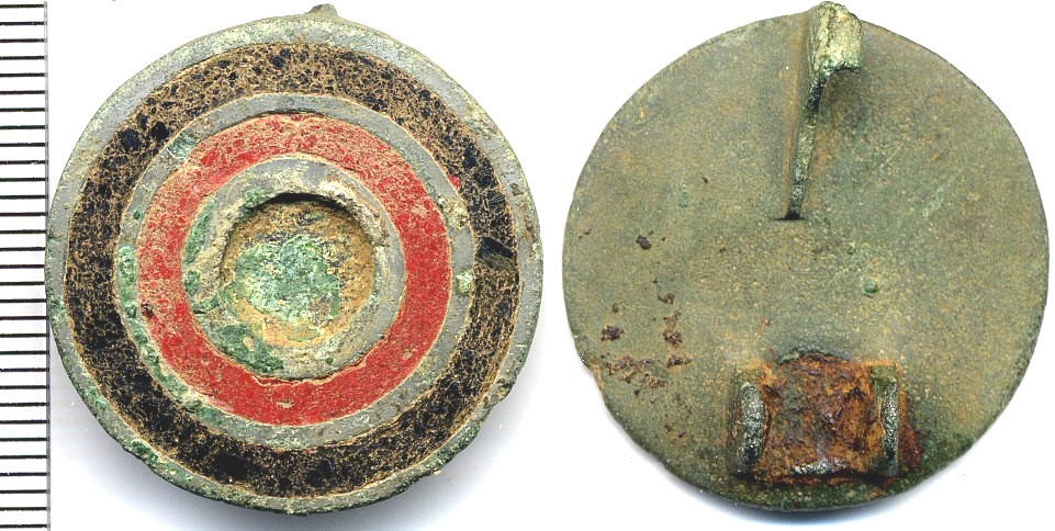 A Roman copper alloy disc brooch with concentric bands of red and black enamel around a central circle. The contents of the centre are missing and it is not clear what would have filled this space. No traces of enamel colour can be detected despite the good preservation of the rest of the design so perhaps a glass or stone 'gem' or intaglio or jet was the focal point of the design. Faint traces of possible silvering can bee seen on the front of the brooch. The back of the object did not appear to be silvered but the catchplate and the pierced lugs for the pin are present. The presence of iron corrosion around the pin fitting suggest that this would have been iron. Two very similar brooches are illustrated by Hattatt (2000 p 344 nos 1027-8) and dated to 2nd century AD. In References search for Hattatt, Visual Cat of RH's Ancient Brooches, add: 344, fig 203, nos 1027 & 1028.